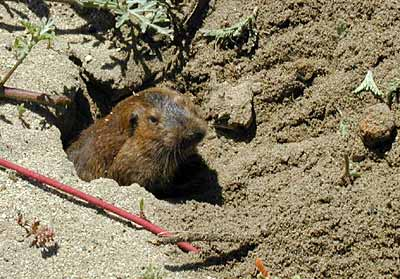 Valley Pocket Gopher (Thomomys bottae). A gopher inspects its surroundings in the dunes around Crissy Marsh (San Francisco, California)